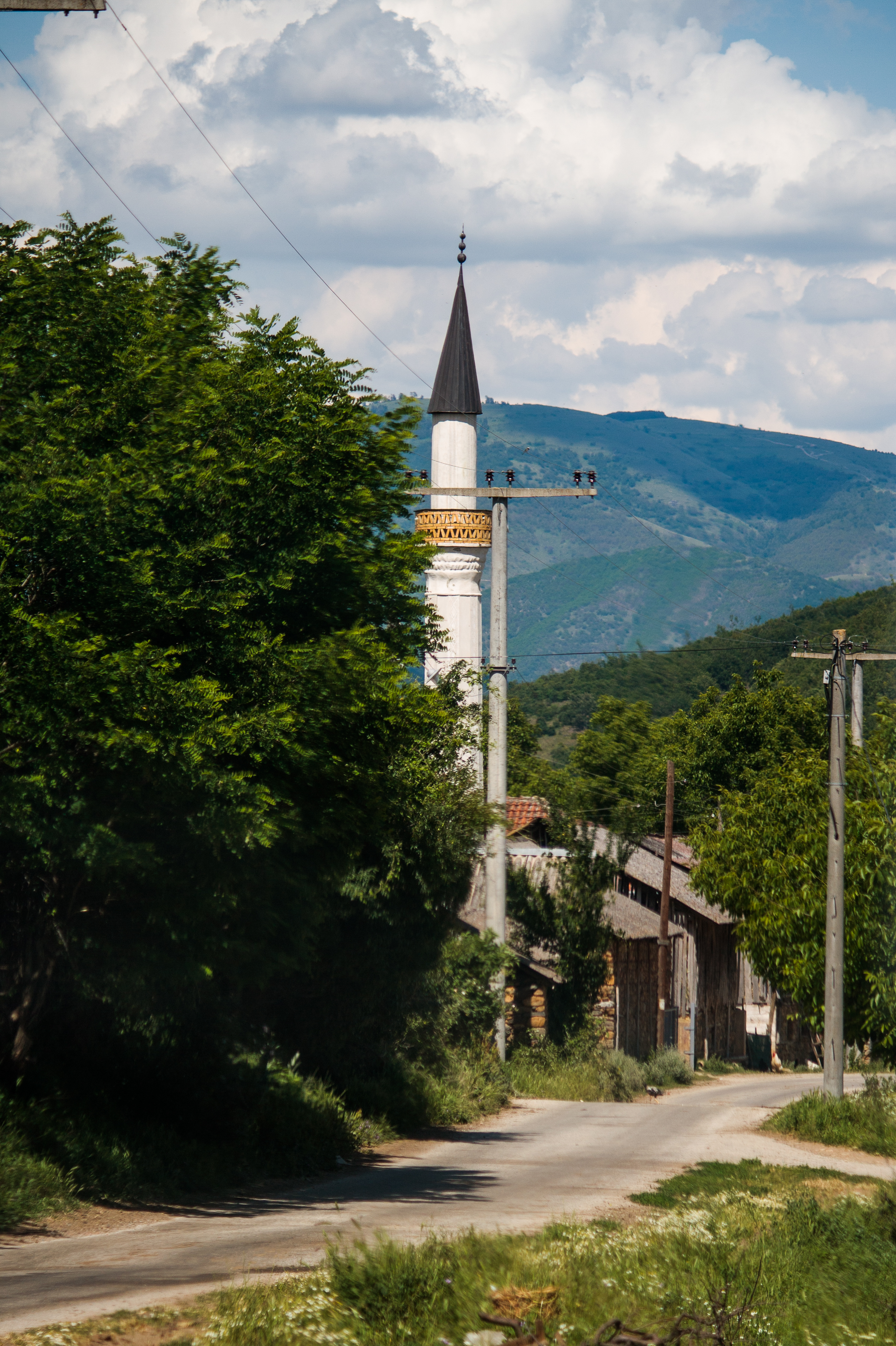 View of the mosque in the village Obednik